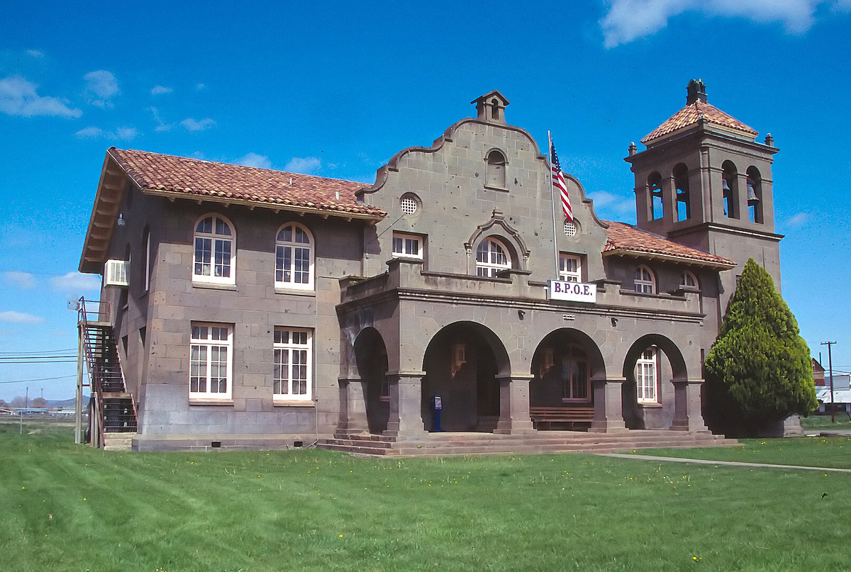 The NRHP-listed Nevada-California-Oregon Railway Co. General Office Building, also known as the N.C.O. Building. Scan from 35mm slide. Now an Elk's lodge.